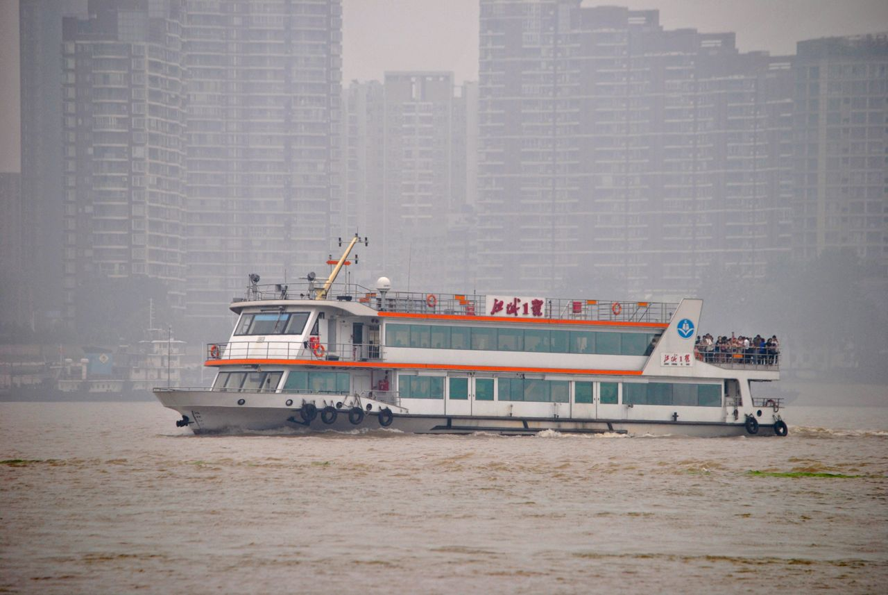 Ships and Ports of Wuhan Ferry.